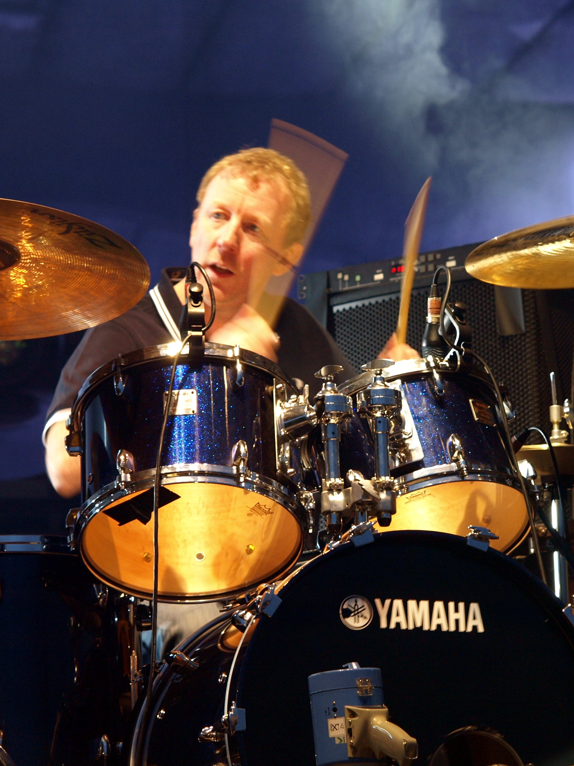 British band Blur live at Provinssirock 2013